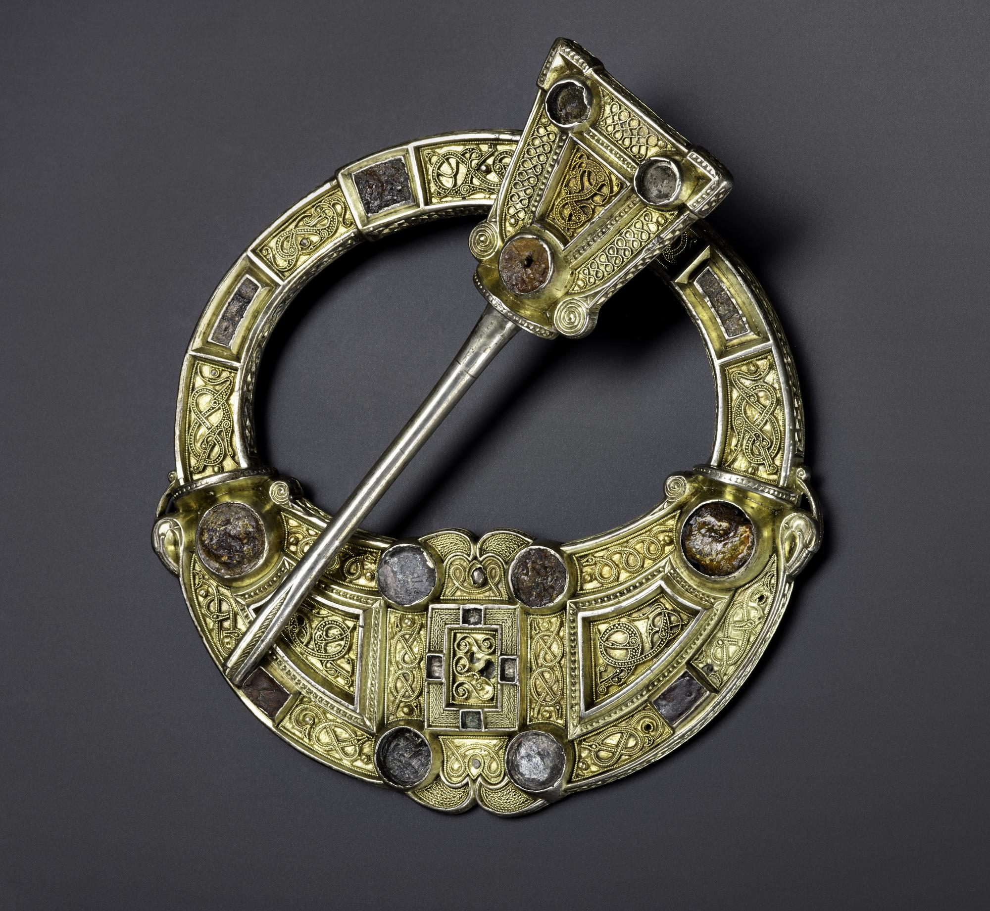 This file was uploaded as part of a partnership between Wikimedia UK and the National Museum of Scotland. This tag does not indicate the copyright status of the attached work. A normal copyright tag is still required. See Commons:Licensing. This work is free and may be used by anyone for any purpose. If you wish to use this content, you do not need to request permission as long as you follow any licensing requirements mentioned on this page.